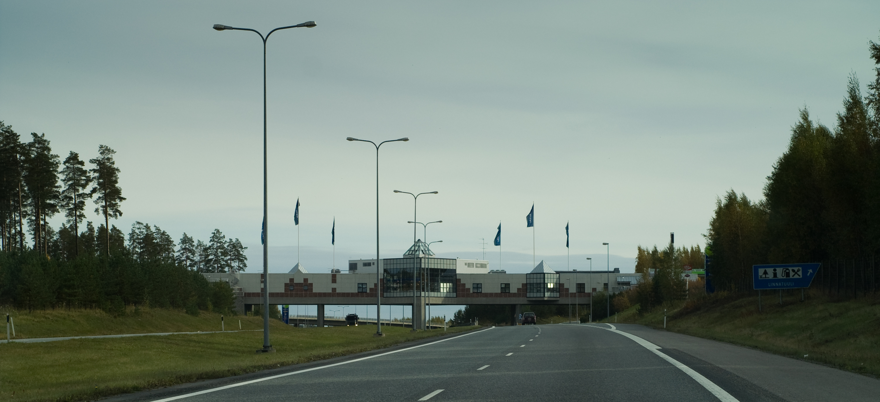 Linnatuuli service station on the highway 3 (E12) in Janakkala, Finland